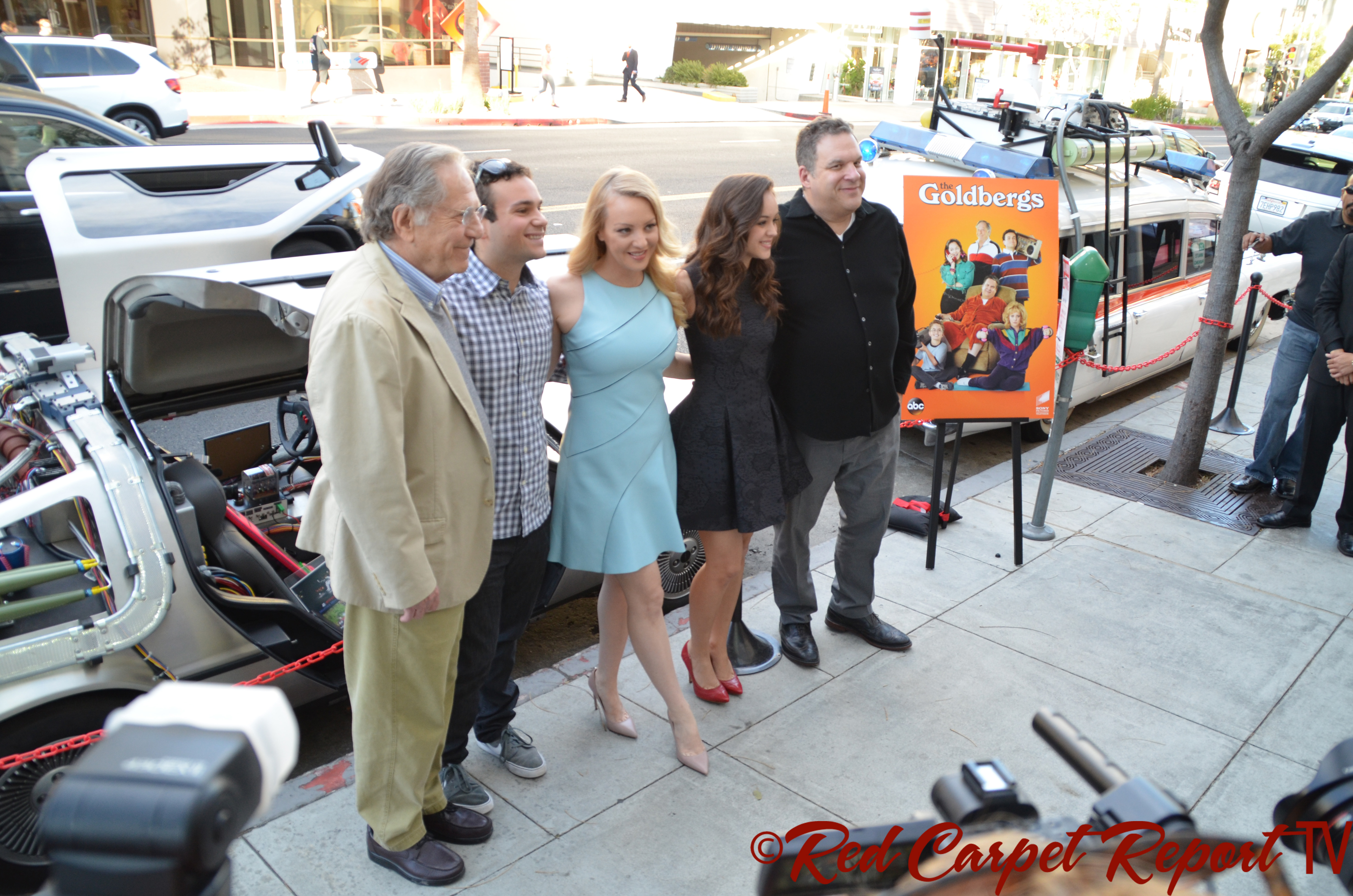 The Goldbergs on ABC